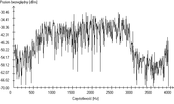 A spectrum of signal of V27ter standard modem on a telephon line.